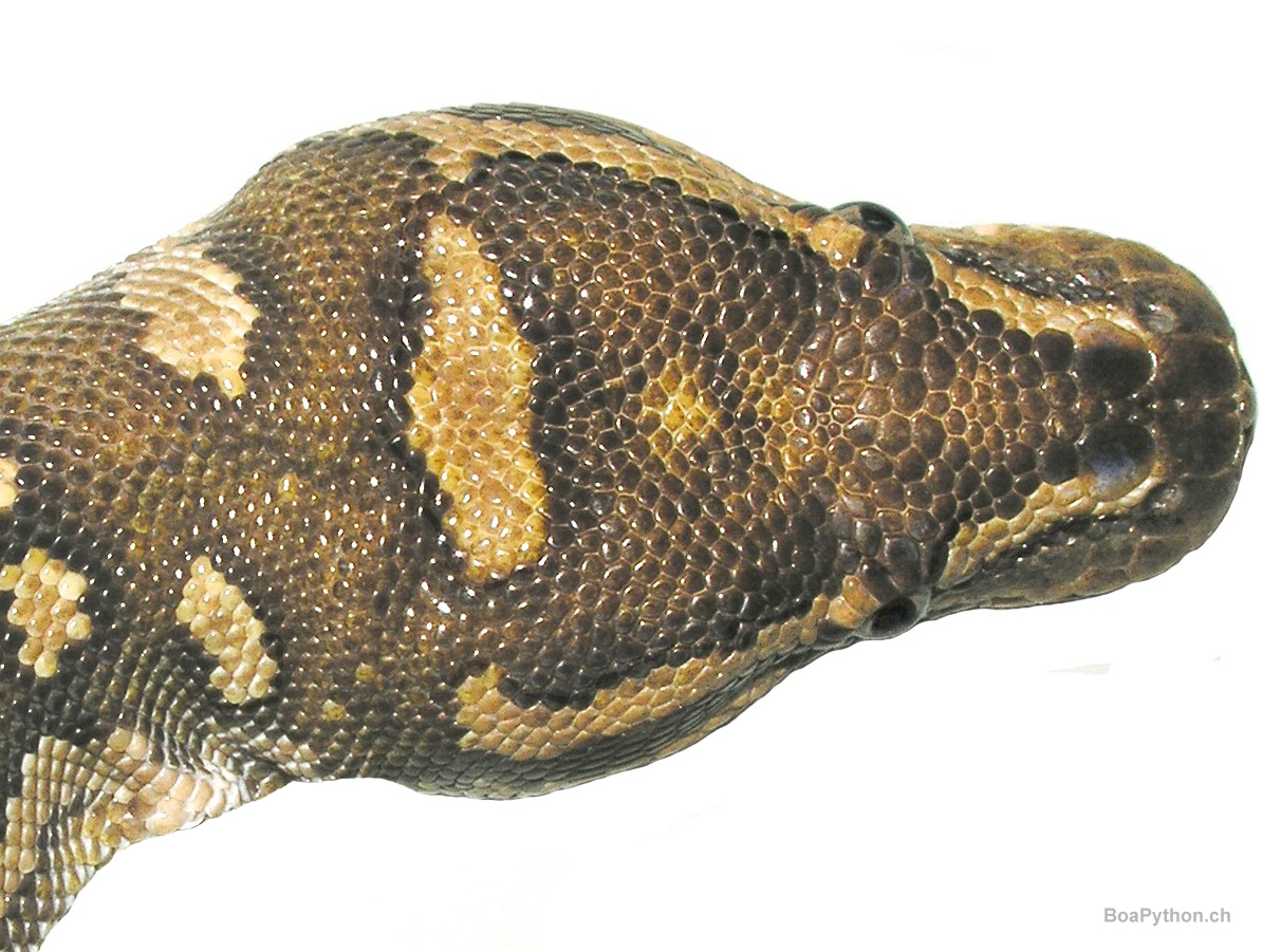 Dorsal view of the head of an adult Angolan Dwarf Python (Python anchietae). This specimen lives in captivity. This picture is a donation of Markus Borer